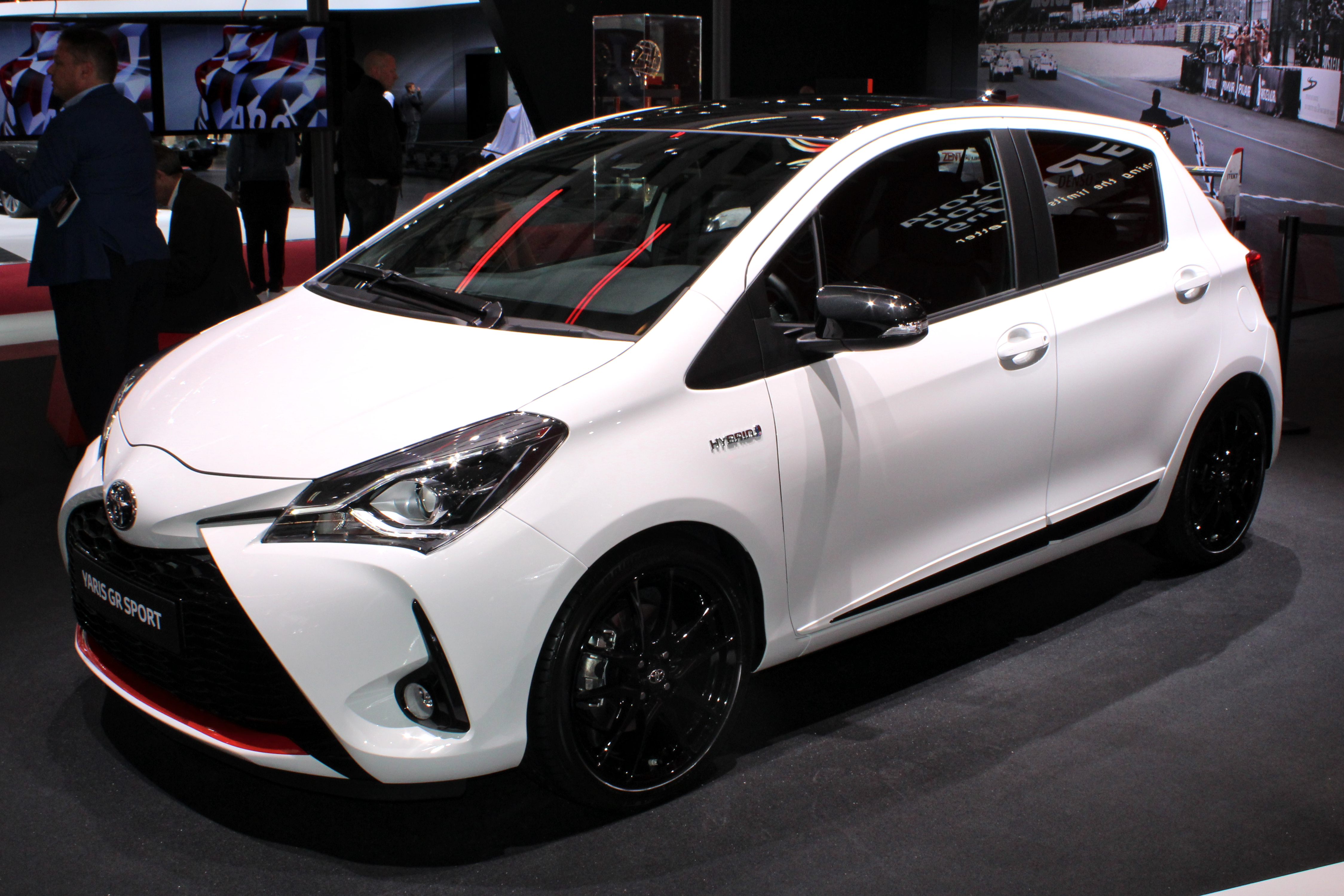 Toyota Yaris GR Sport at Paris Motor Show 2018